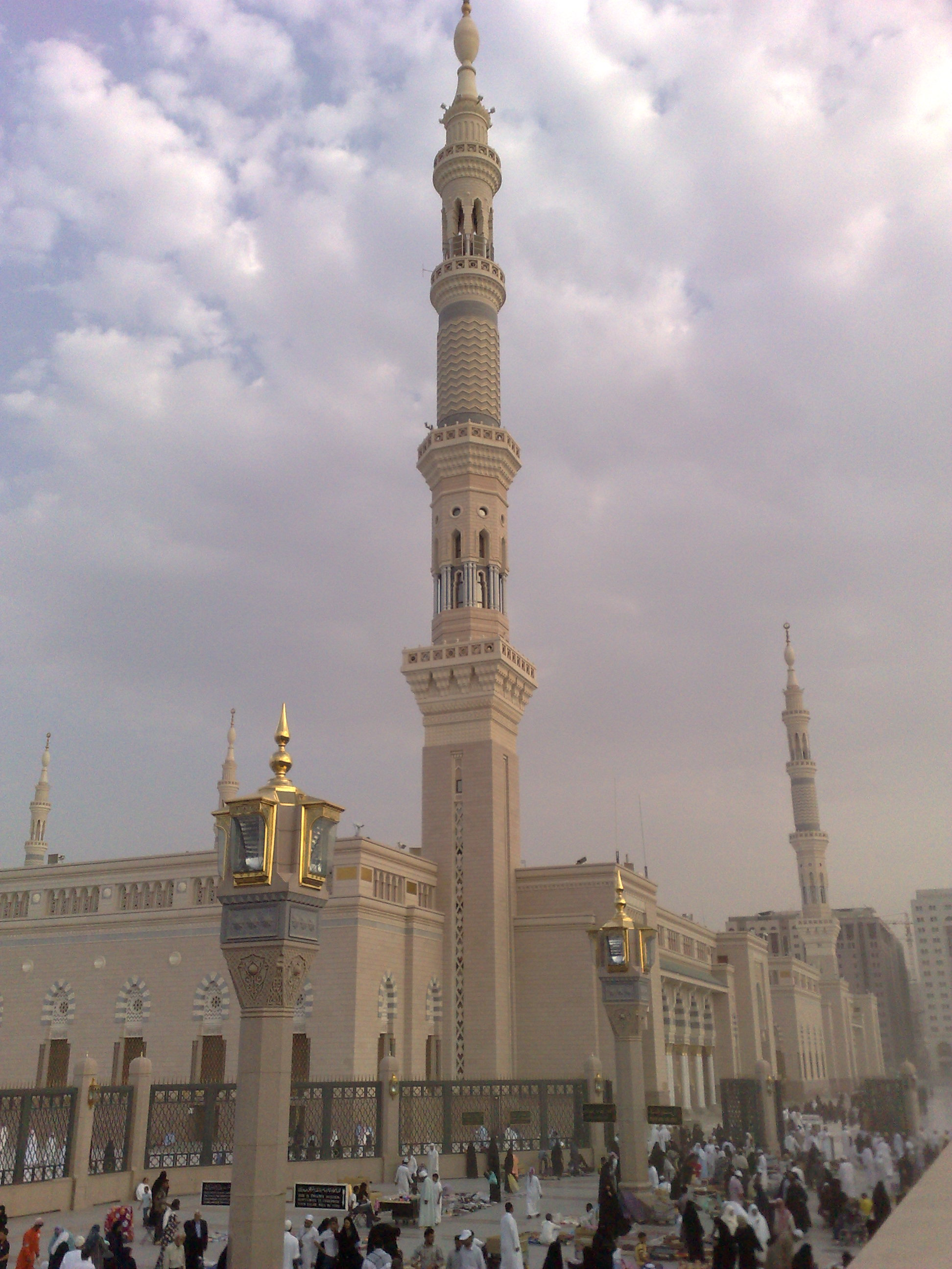 Al-Masjid al-Nabawi in Medina, Saudi Arabia